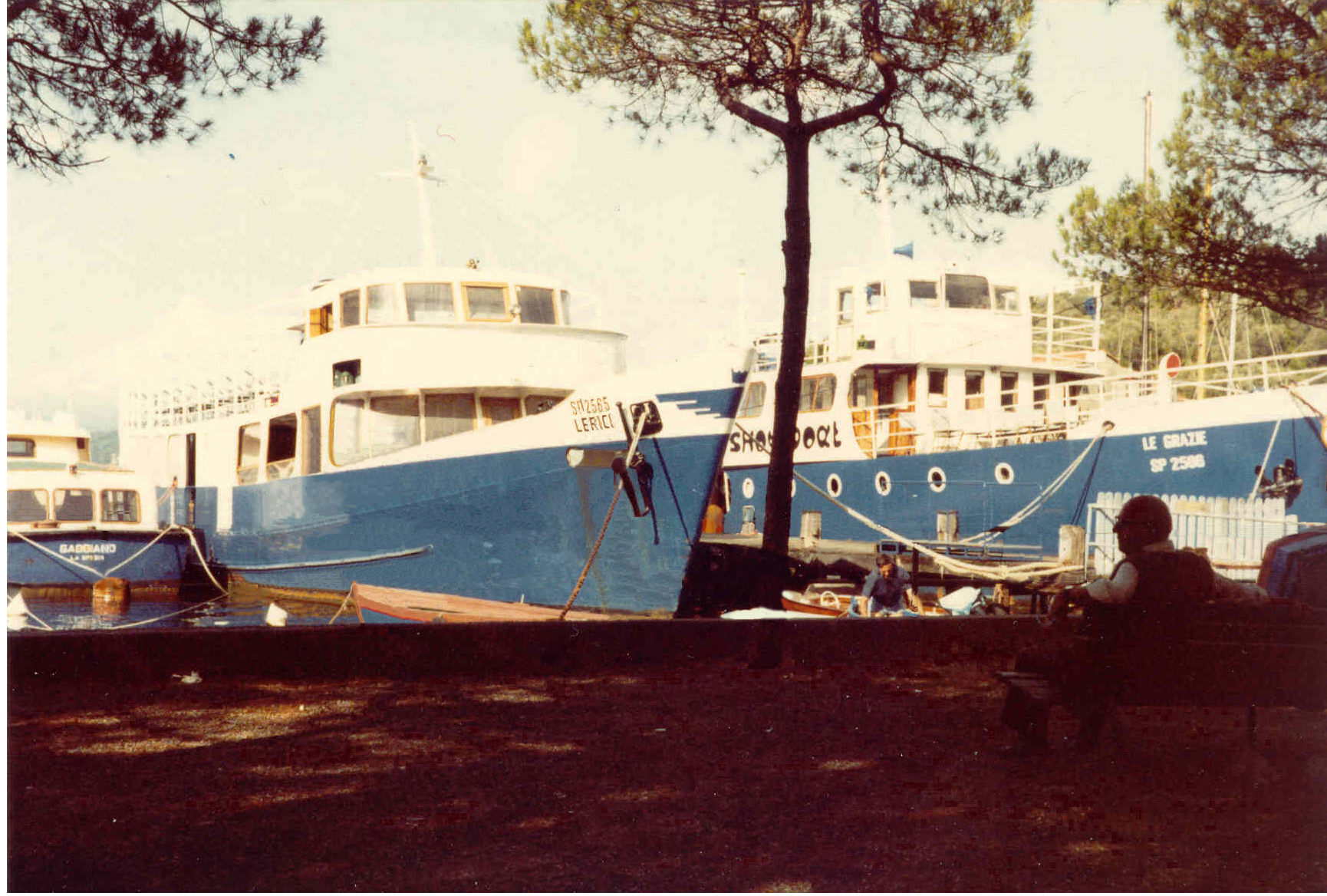 MS Gabbiano, MNs Le Grazie and Lerici